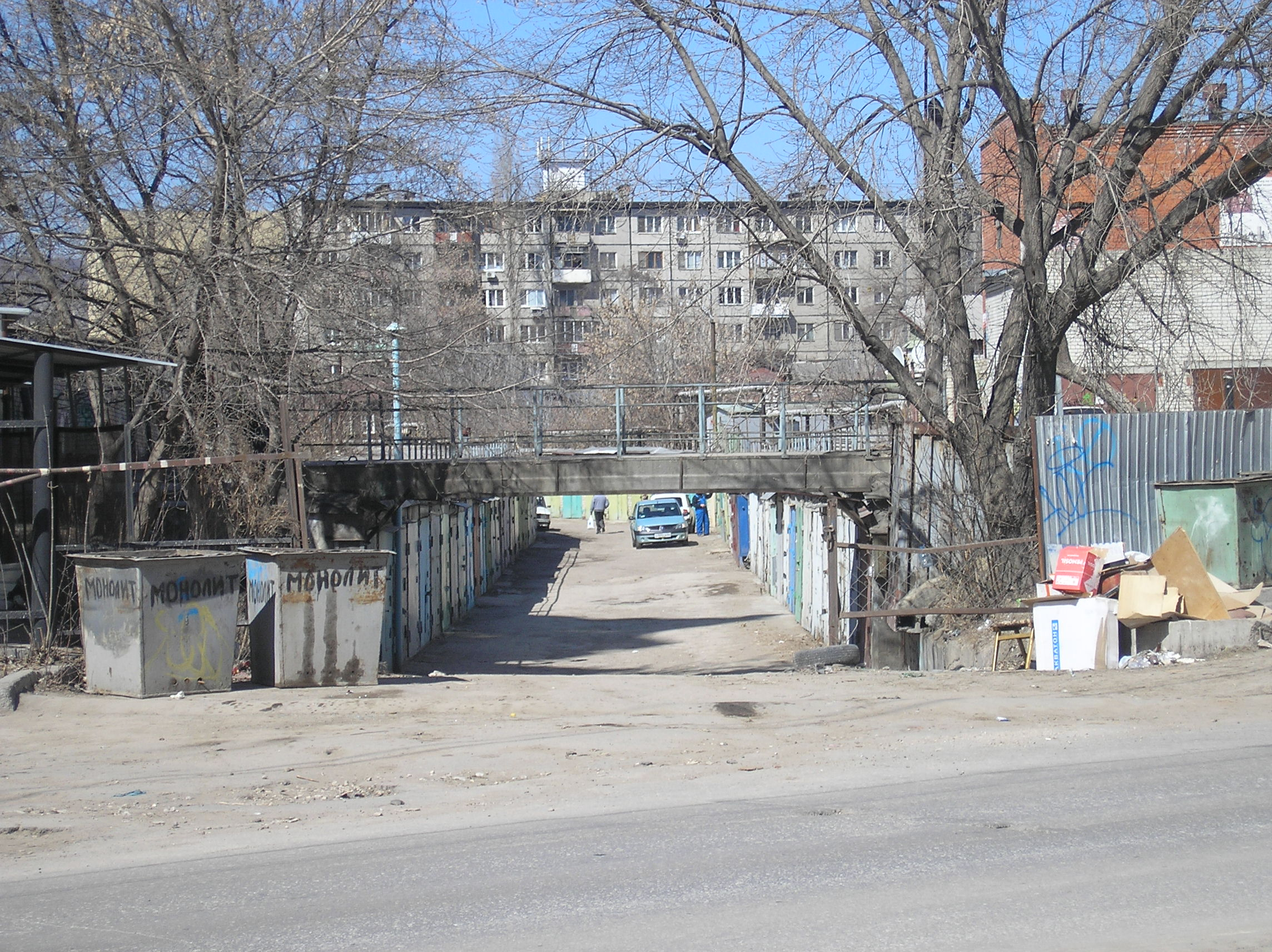 Garages in Beloglinsky ravine, Saratov, Russia